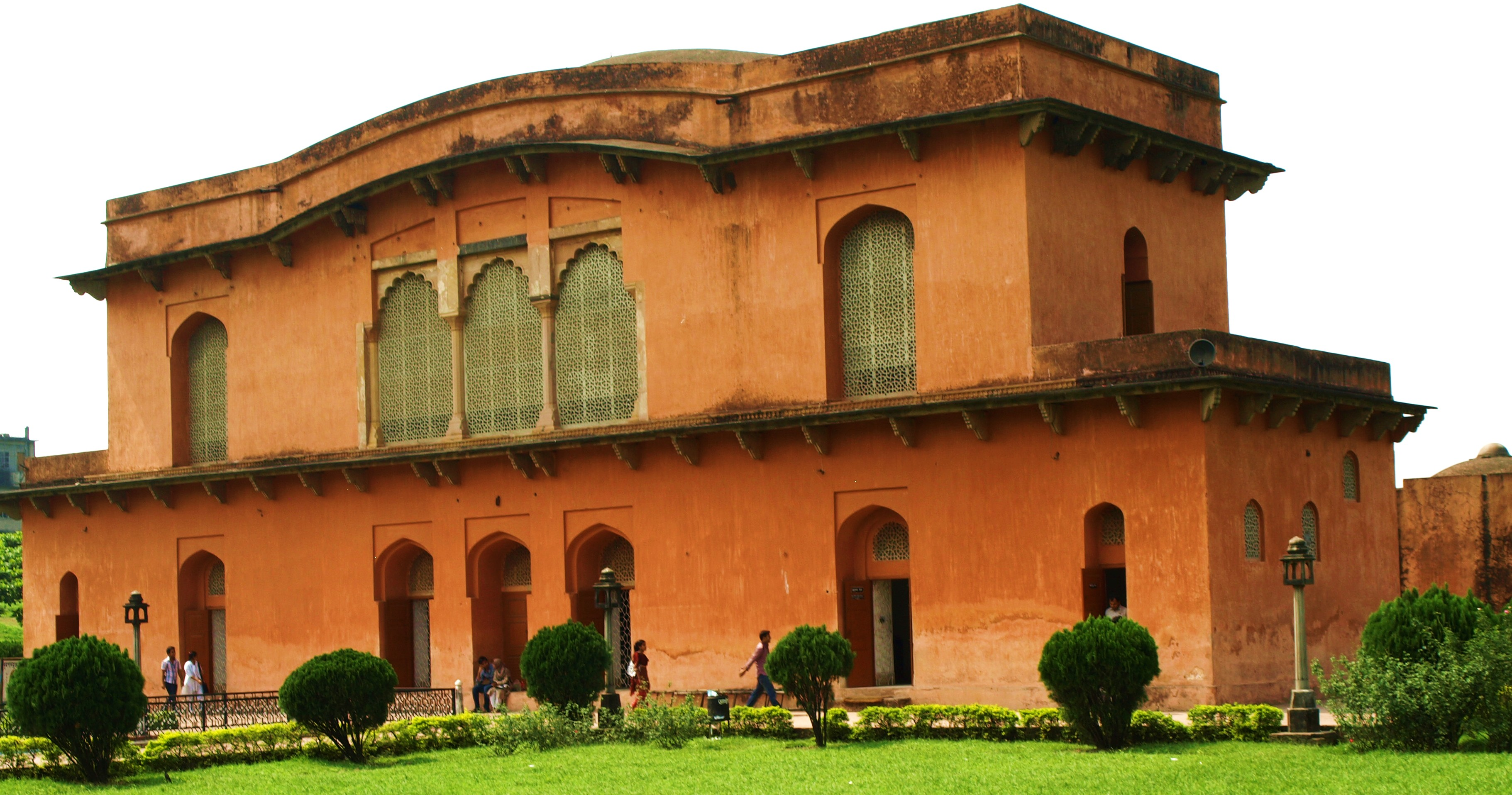 Lalbagh Kella (Lalbagh Fort)